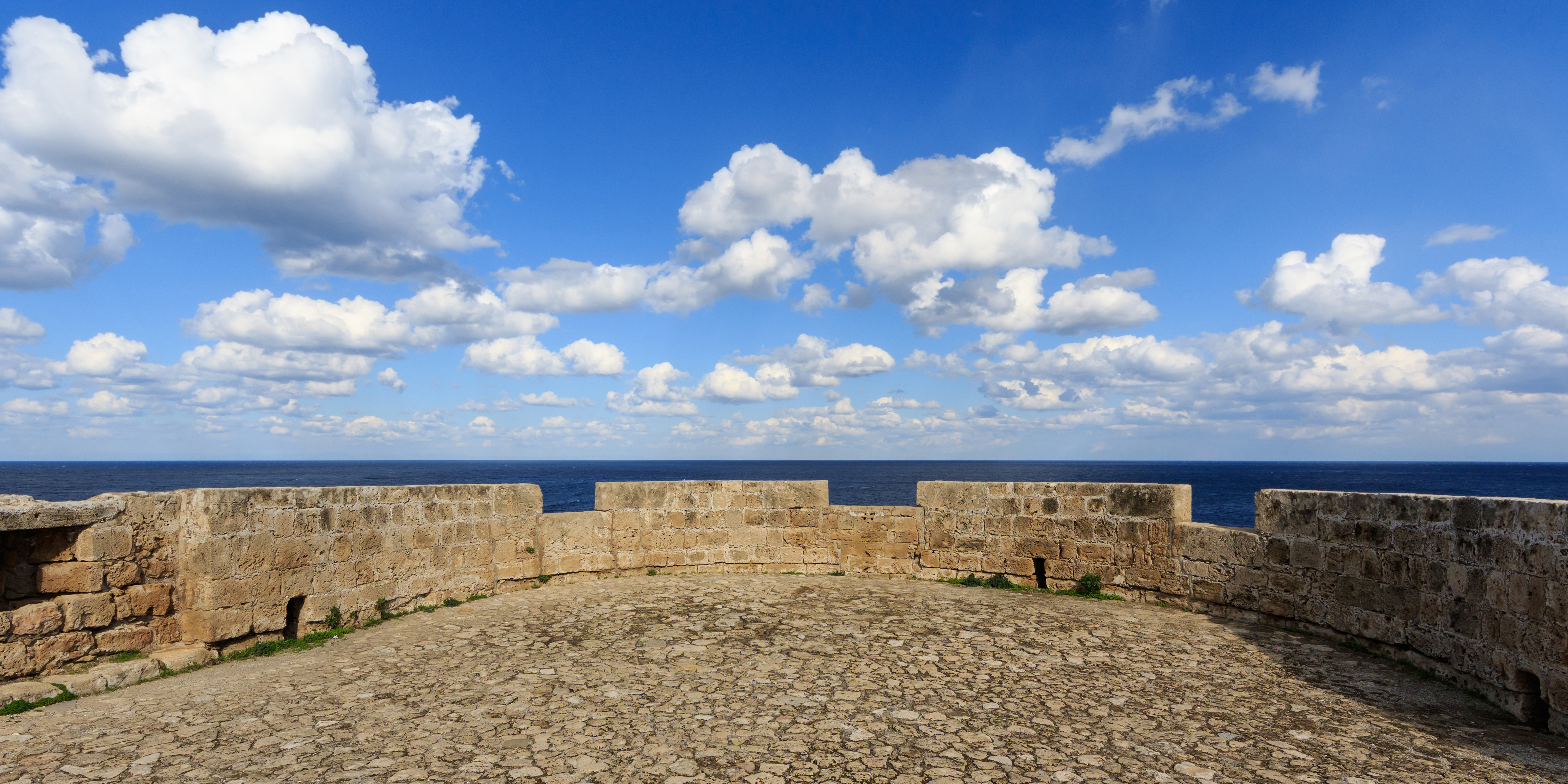 View on a bastion of the castle in Kyrenia, Cyprus